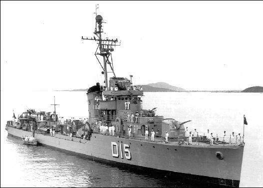 Naval ship of Brazil.